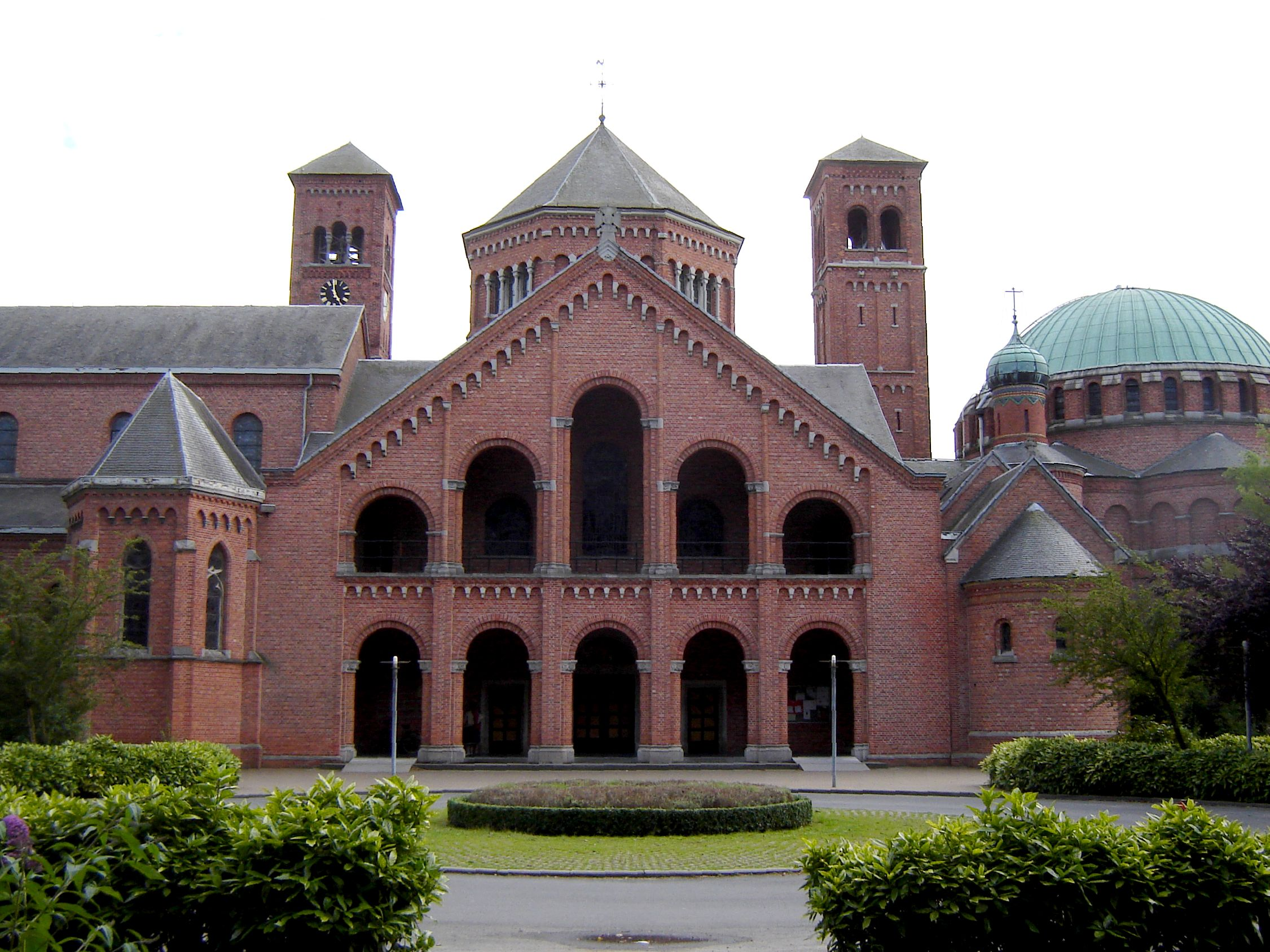 Church of the Sint-Andries abbey Zevenkerken. Sint-Andries, Brugge, West-Flanders, Belgium.